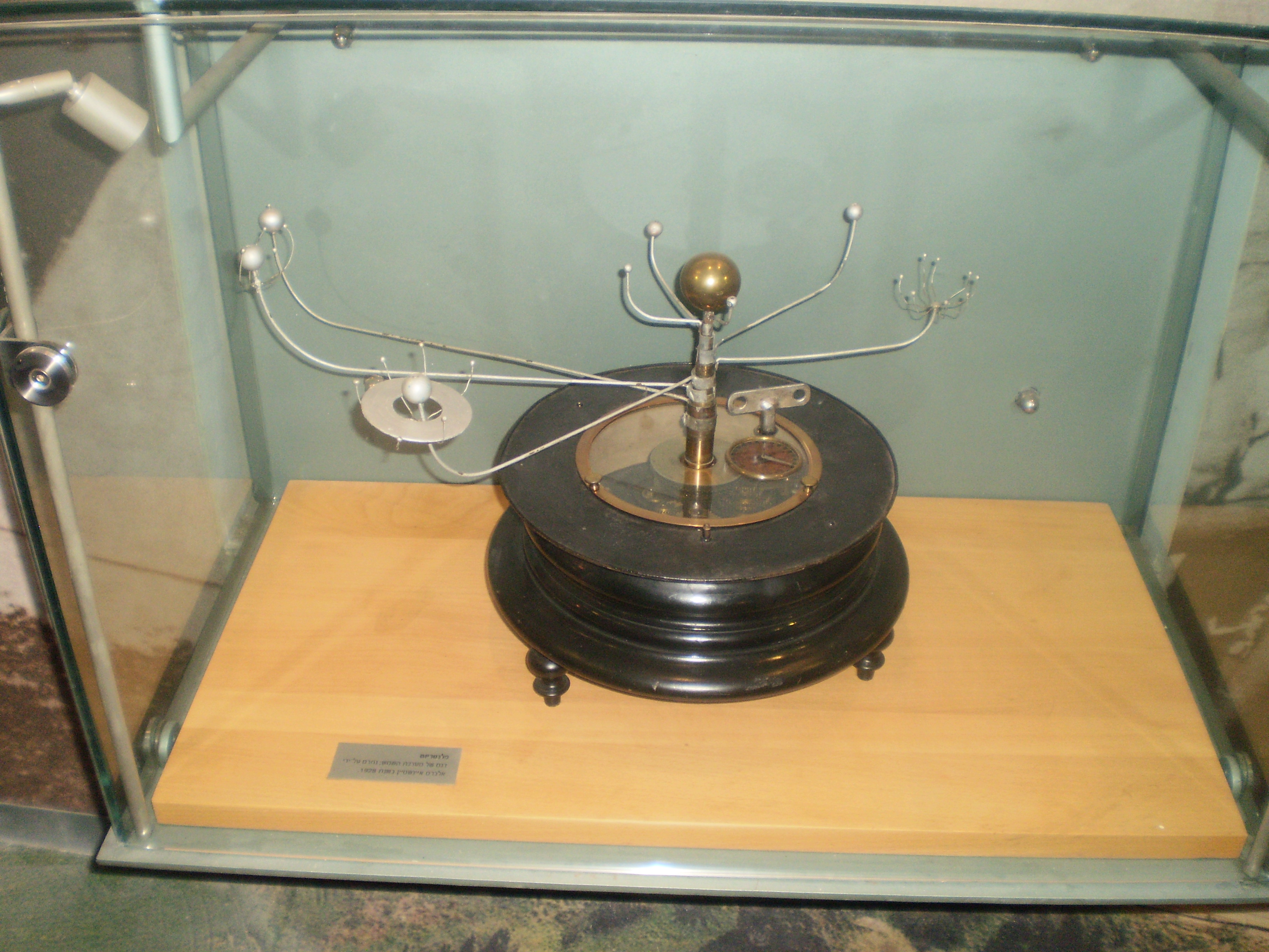 Solar system model, donated by Albert Einstein to the Ben Shemen Youth Village, 1928